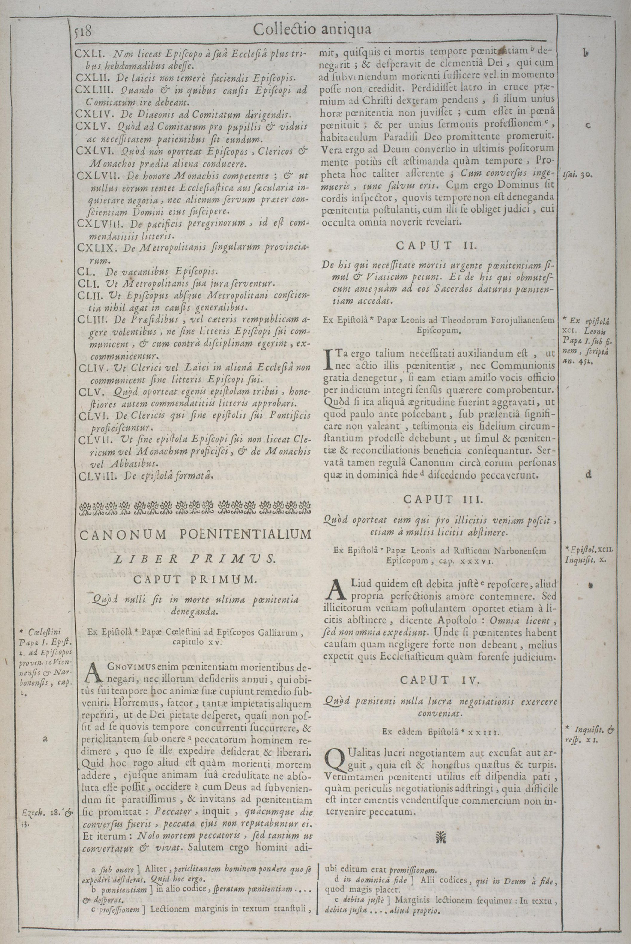 This is the page 518 of the 1723 edition of the work Spicilegium sive collectio veterum aliquot scriptorum by Luc d'Achery (1609-1684).